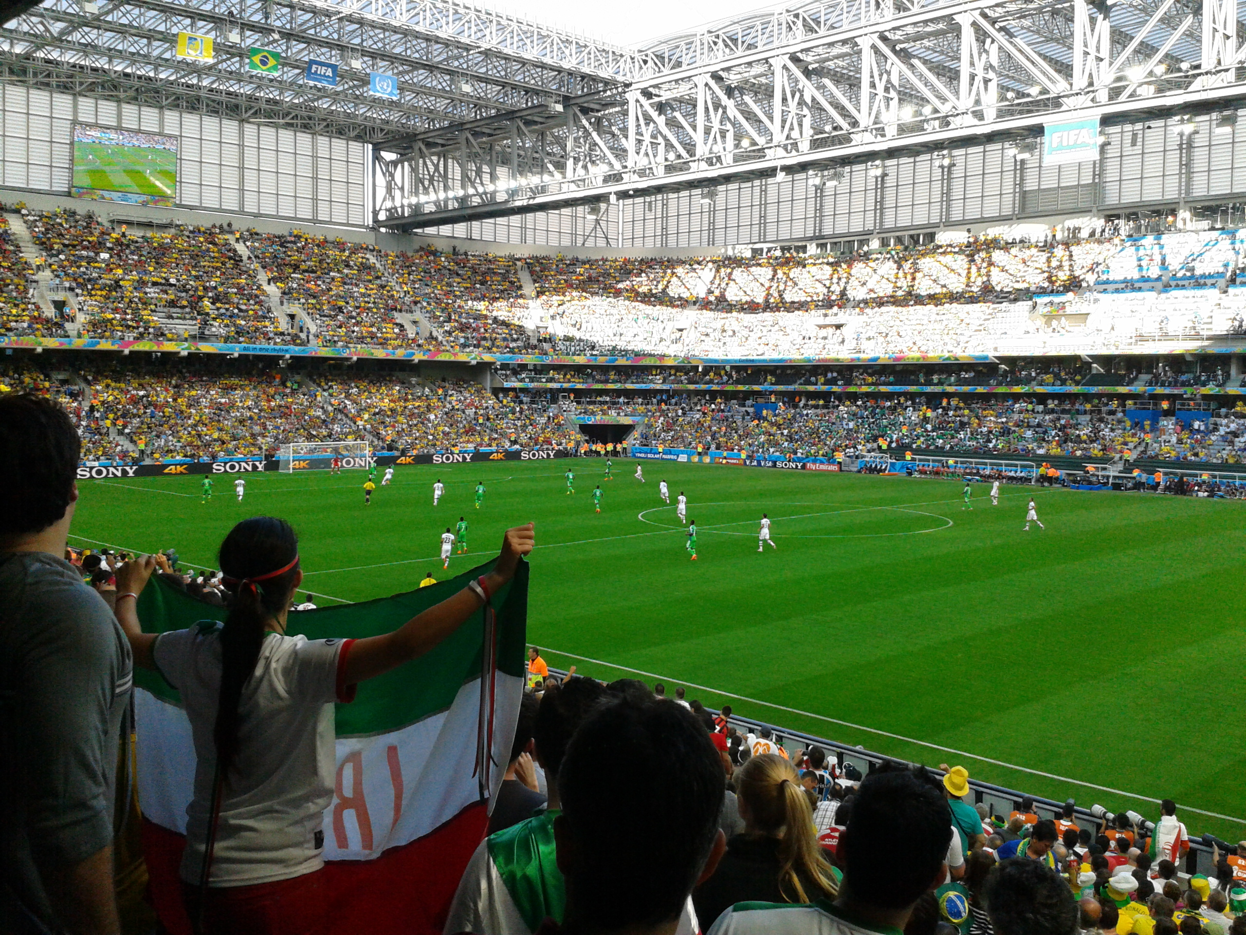 Iran and Nigeria match at the FIFA World Cup (2014-06-16)